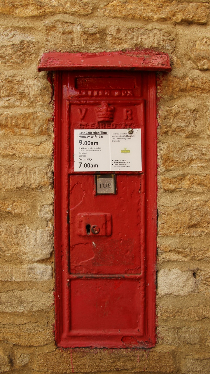 VR postbox mounted in the wall of Dossett's Old School, Kencot, Oxfordshire